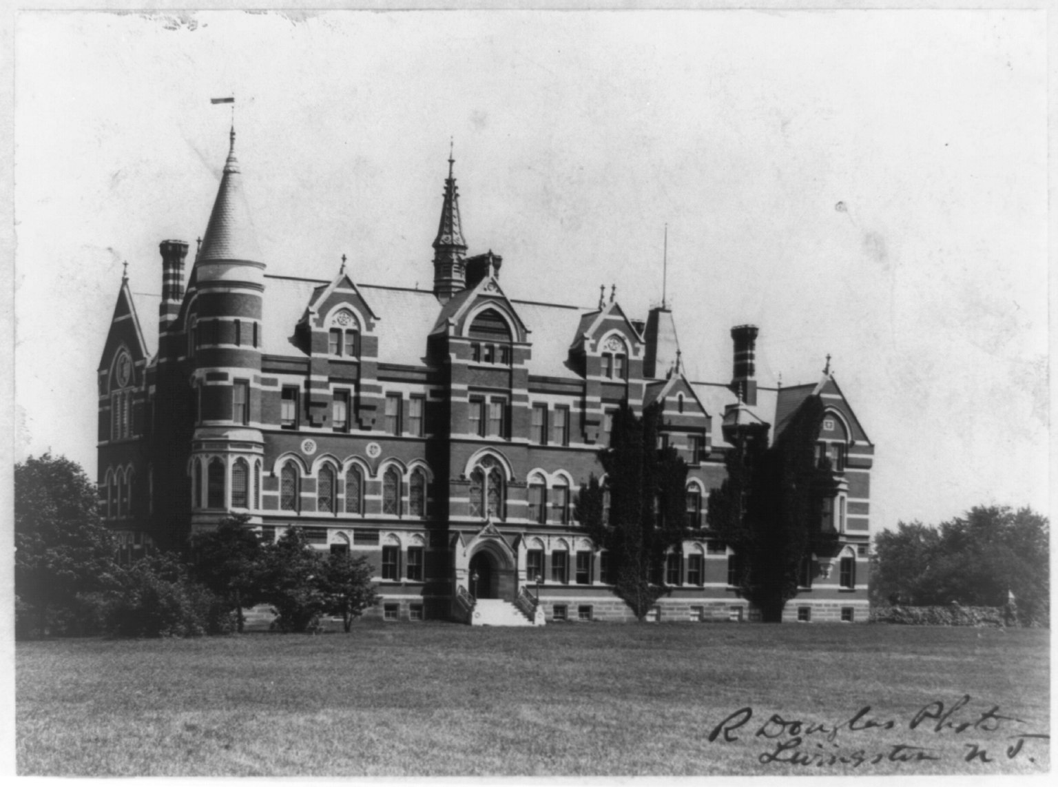 Title: D.C. Washington--Gallaudet College--1897--Exterior Abstract/medium: 1 photographic print.